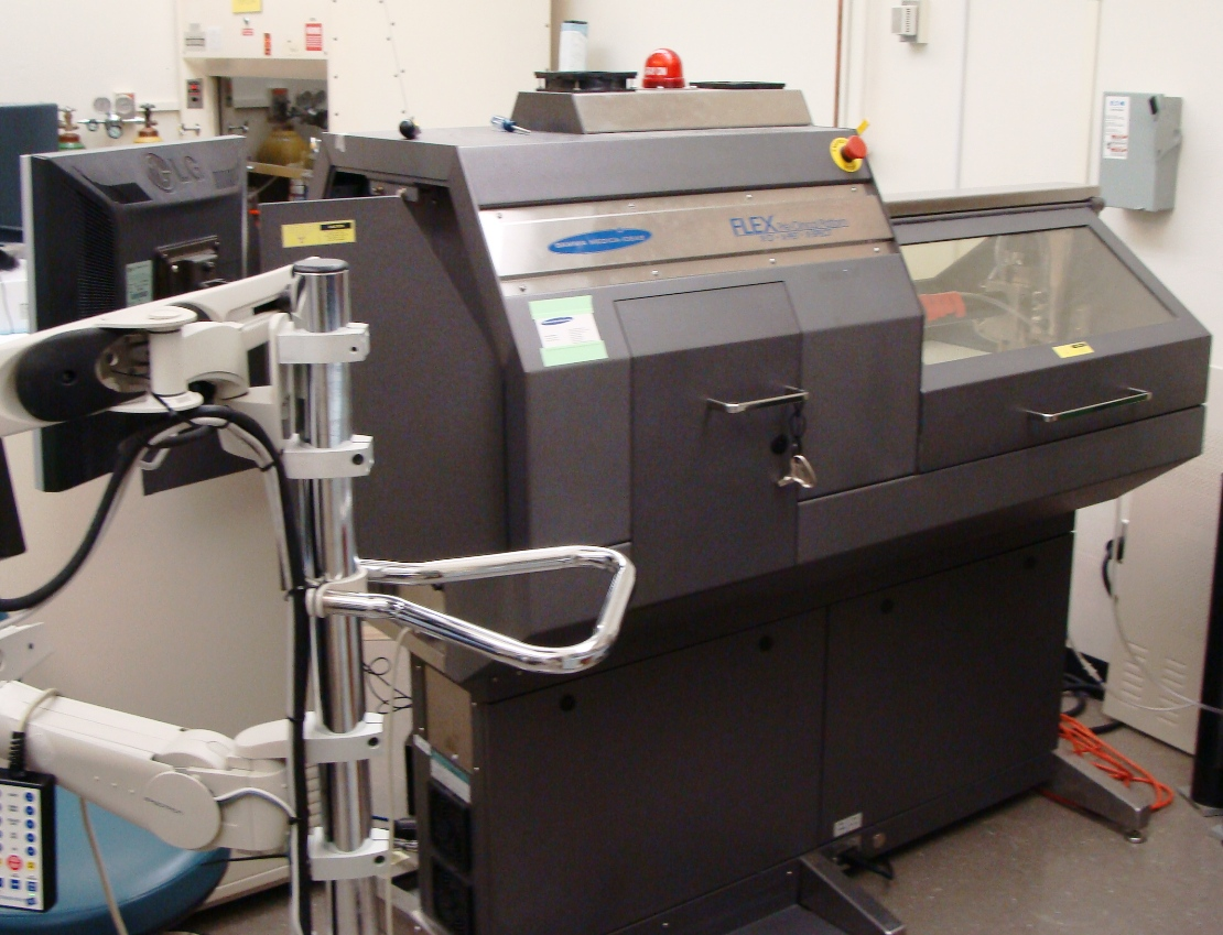 A small animal SPECT/CT/PET system, manufactured by Gamma Medica